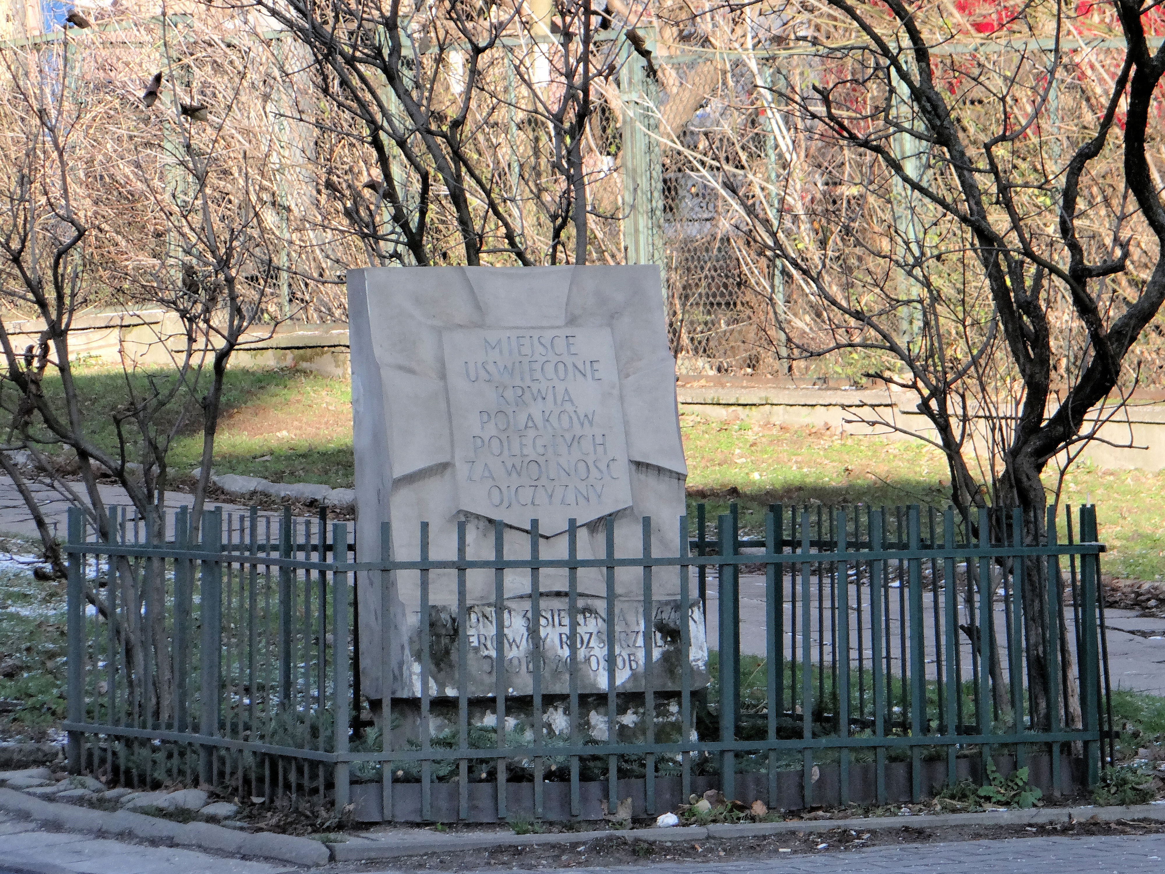 Place of National Memory at 96, Dobra Street in Warsaw (near Mariensztat)